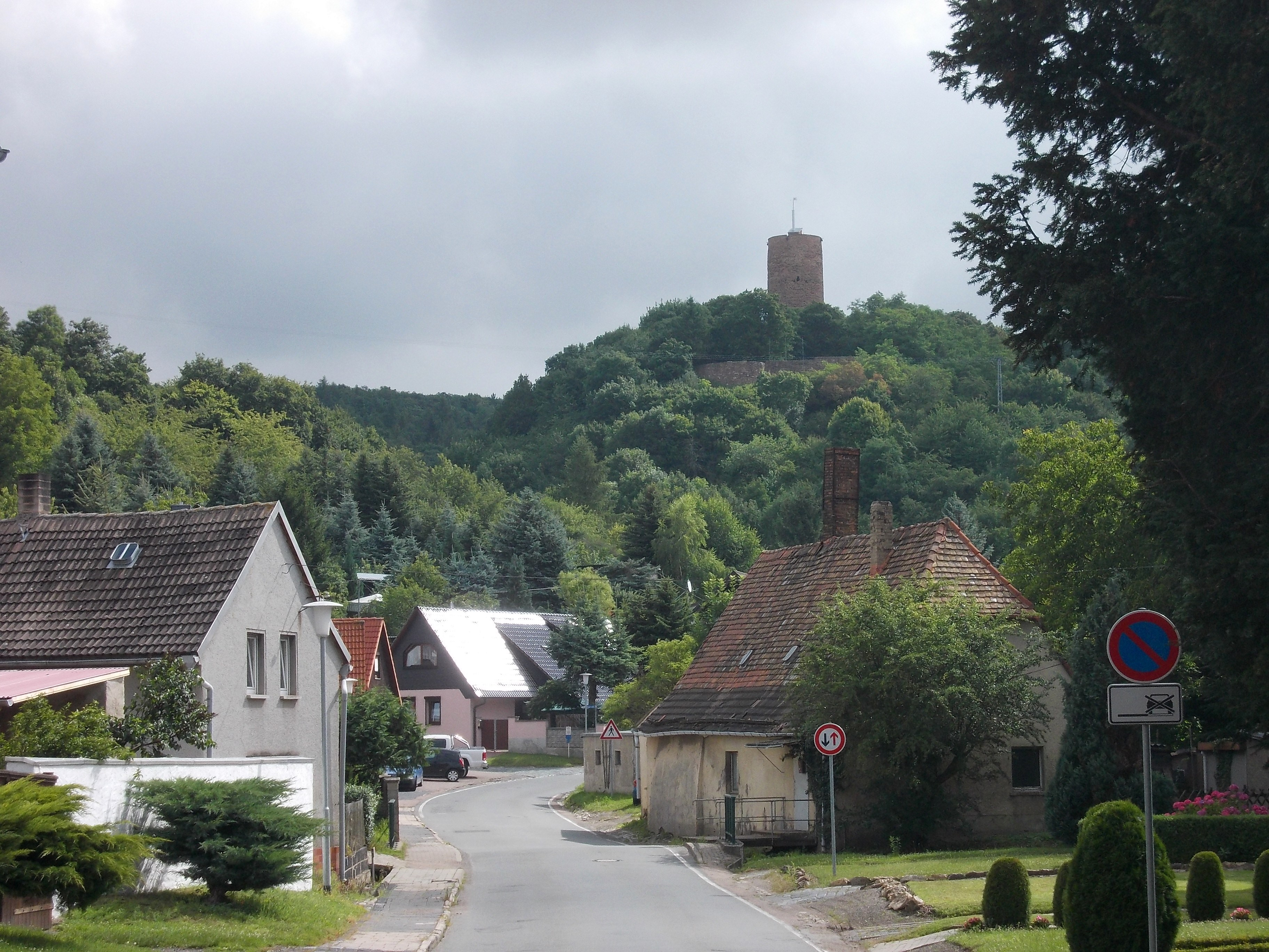 Bornstedt Castle (Mansfeld-Südharz district, Saxony-Anhalt), view from the village